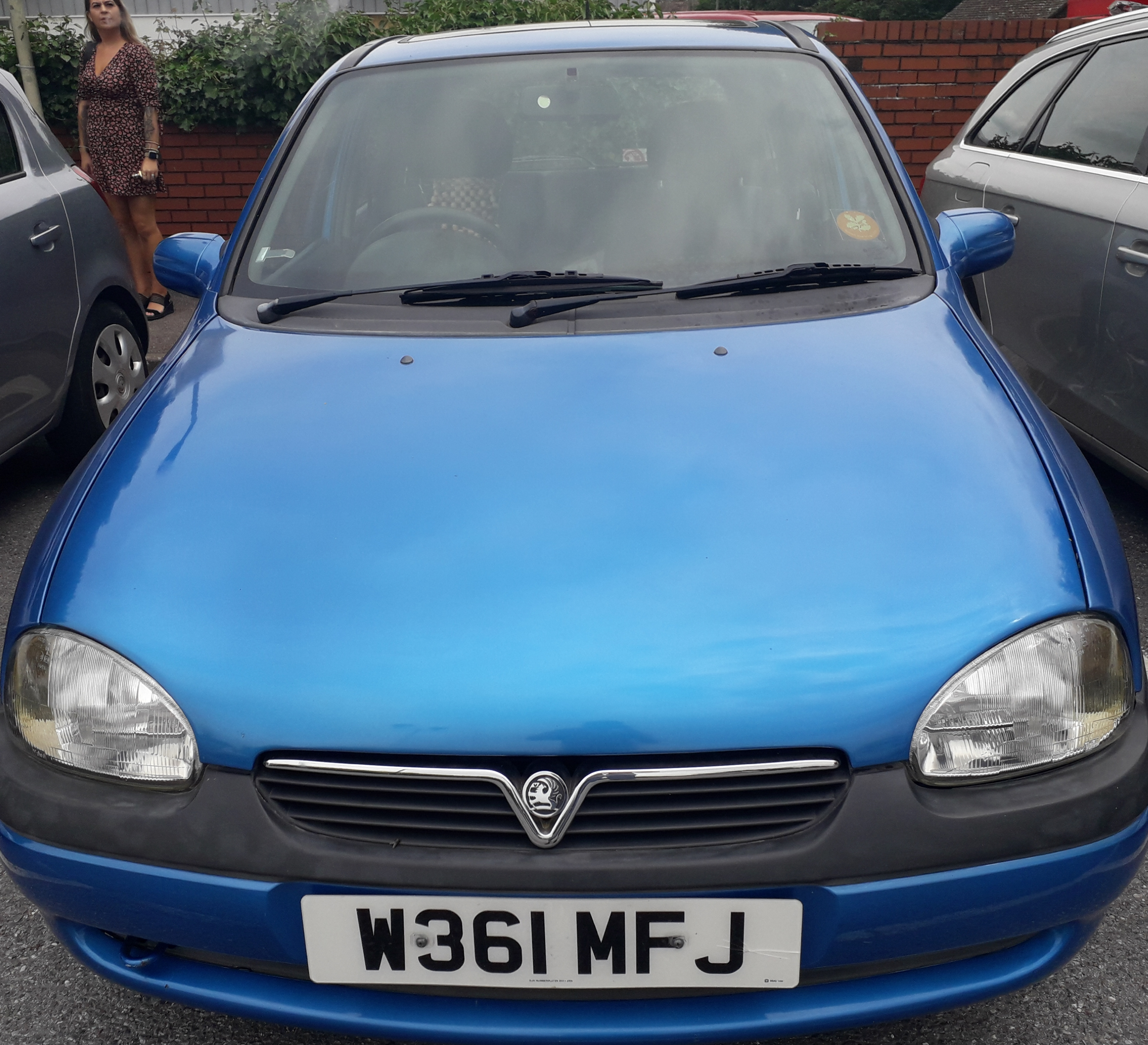 Vauxhall Corsa